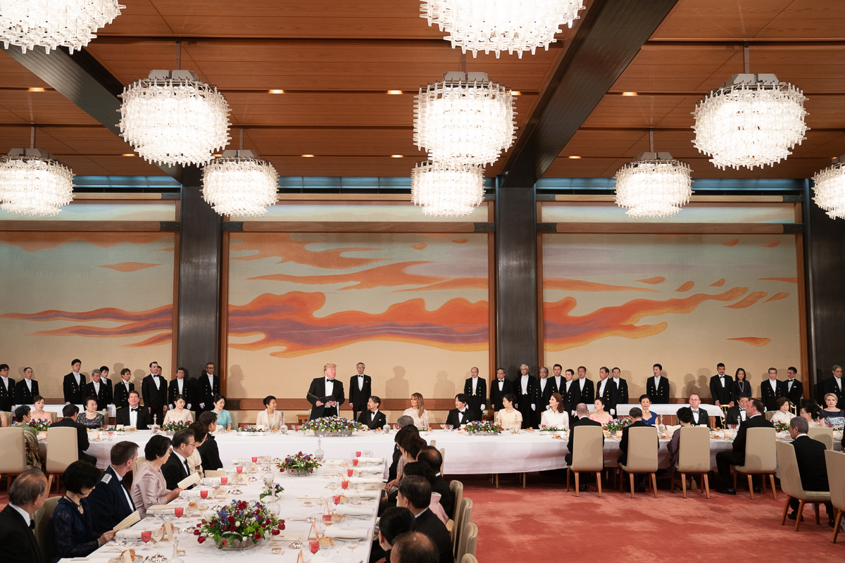 President Donald J. Trump, joined by First Lady Melania Trump, Emperor Naruhito and Empress Masako of Japan, delivers remarks during the state banquet at the Imperial Palace Monday, May 27, 2019, in Tokyo. (Official White House Photo by Shealah Craighead)